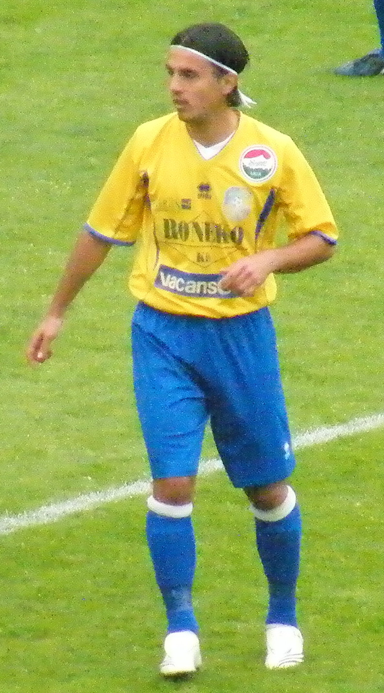 Attila Andruskó Hungarian association football player.